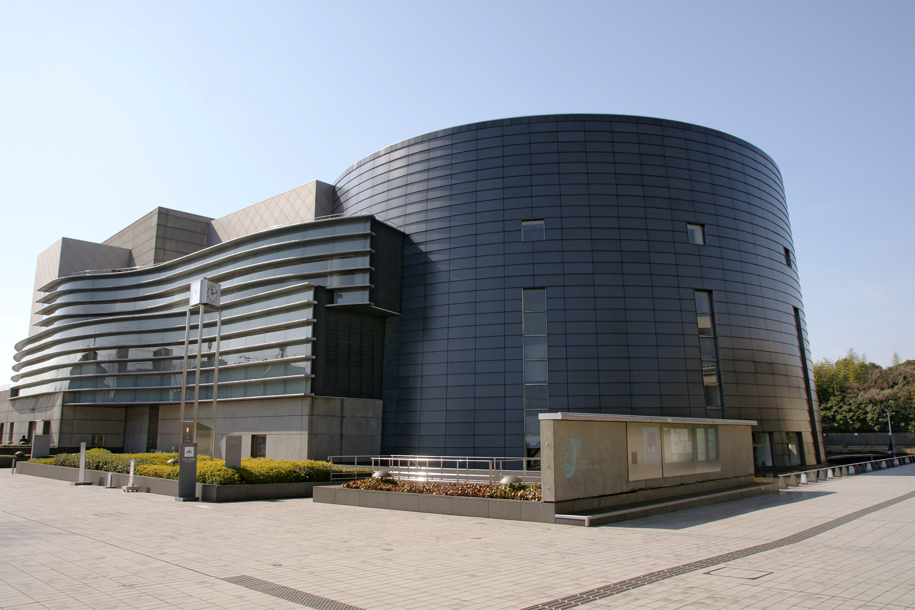 Kyoto Concert Hall in Kyoto, Kyoto prefecture, Japan